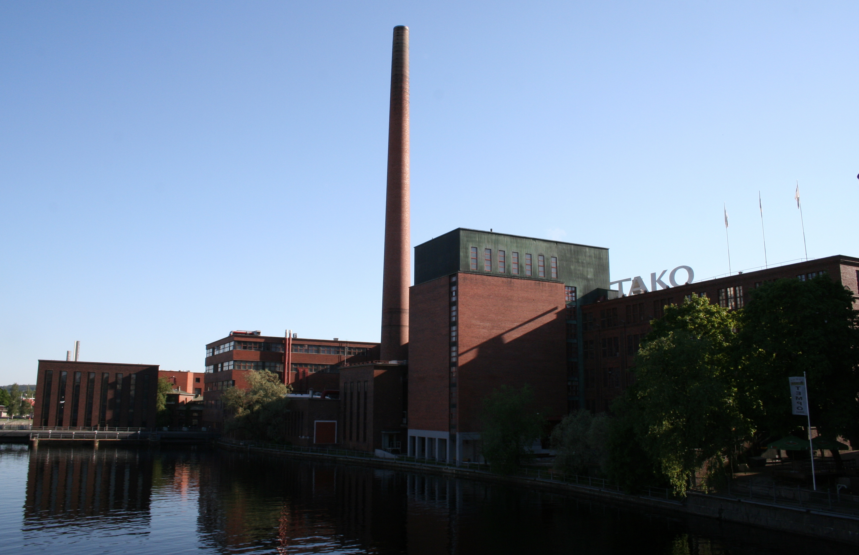 Tako paperboard factory owned by Metsä Board in Tampere, Finland